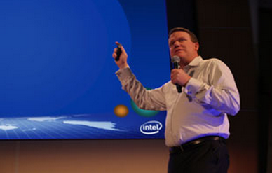 Motivational Speaker Doug Dvorak Presenting to Intel in the United States